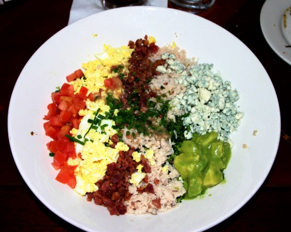 A Cobb Salad Photo by Elizabeth (table4five) Website